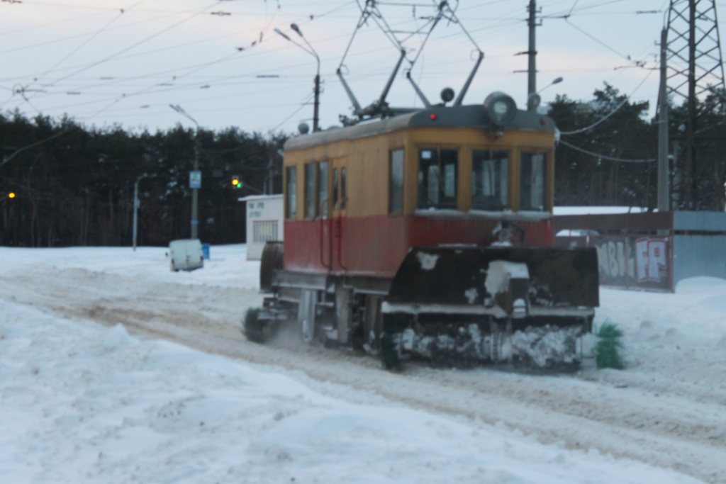 snow-removal tram in Kyiv, February, 52, 2013